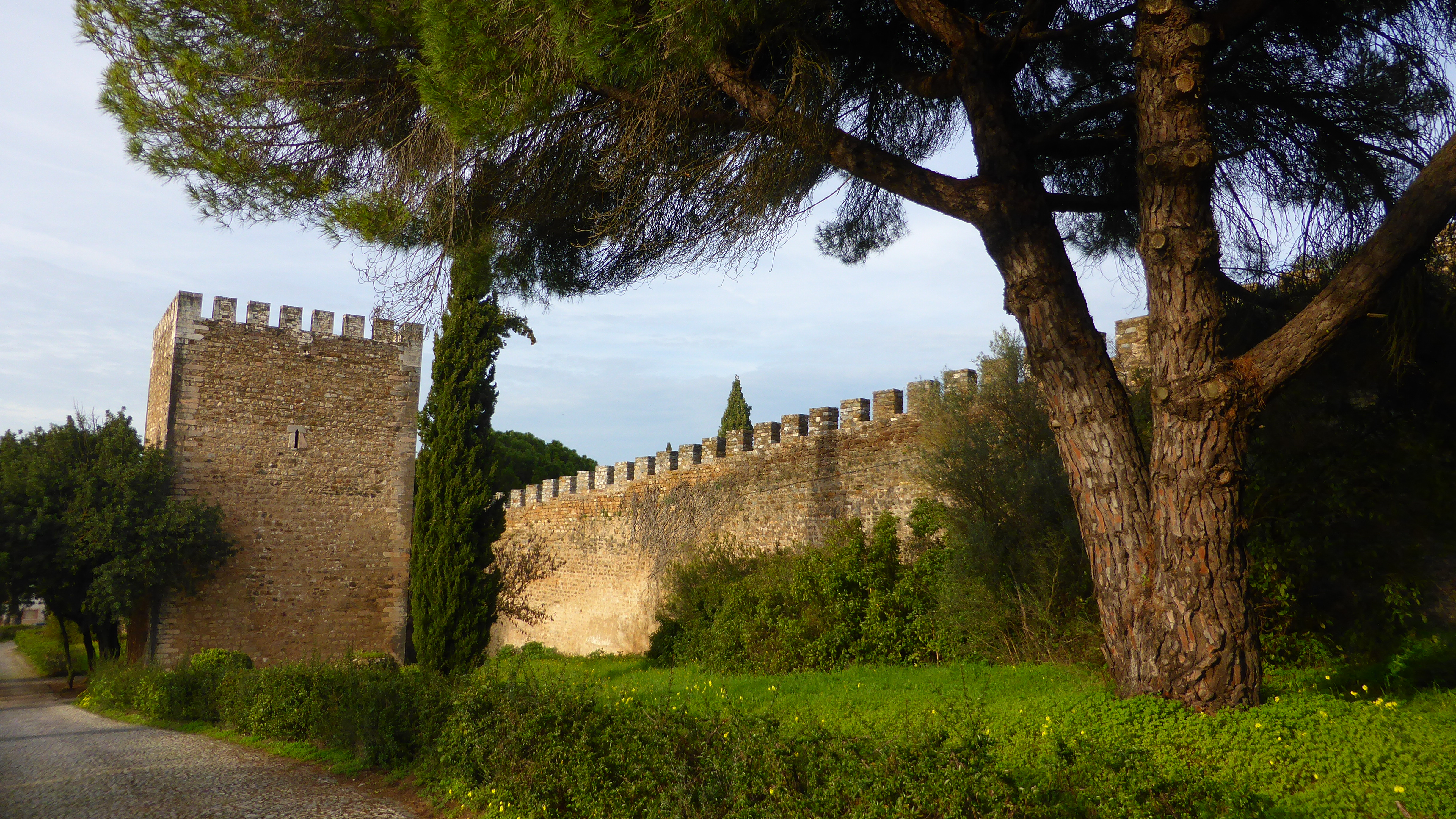 Duke's Palace & Museum